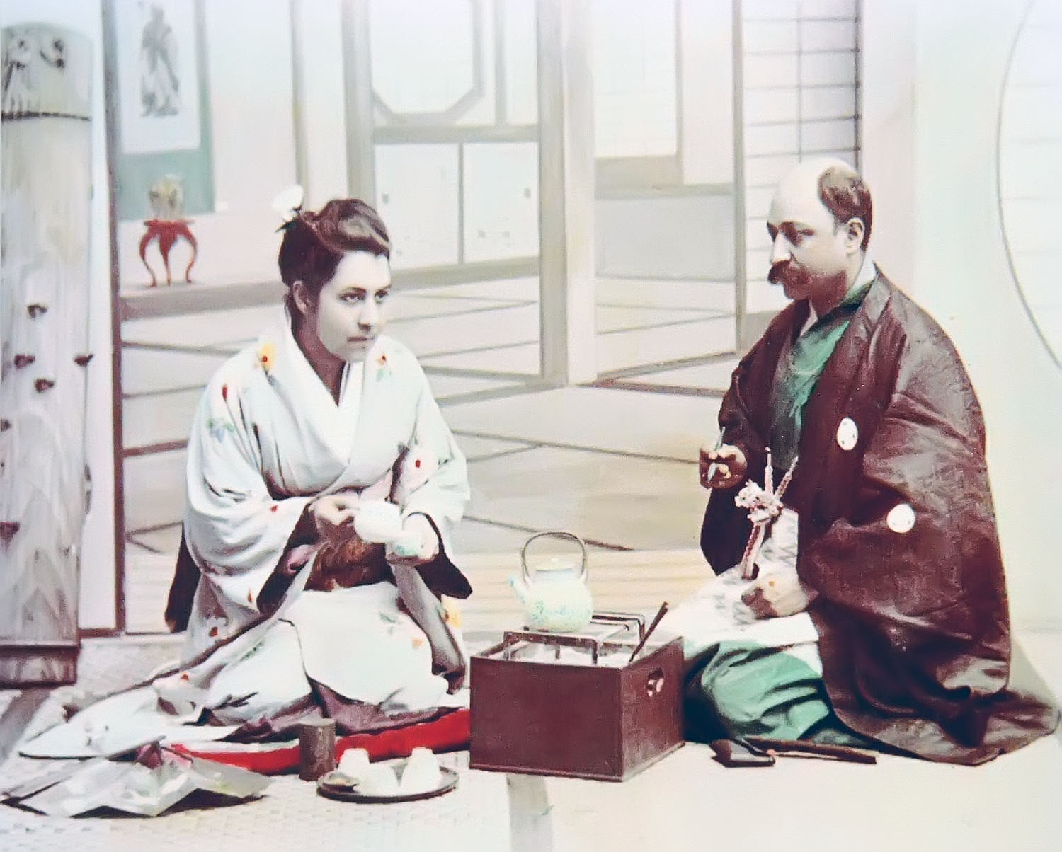 Diana Abgar in Japanese attire.